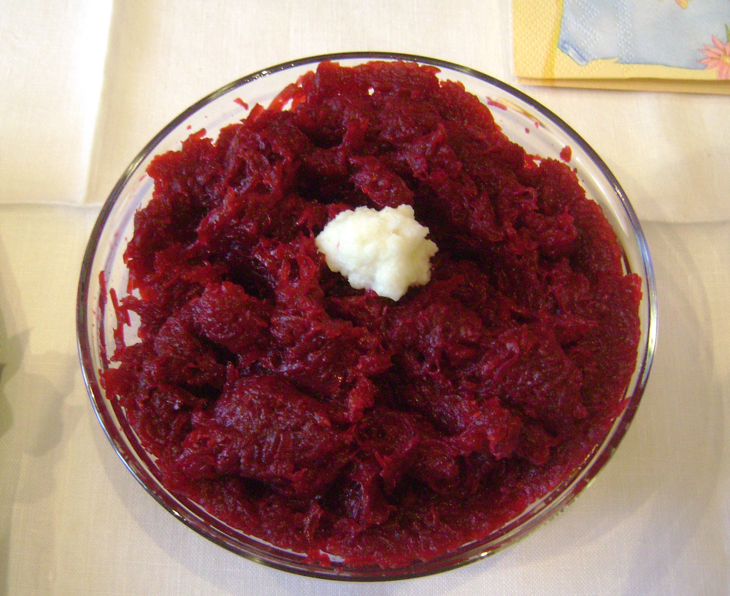 Easter 2010